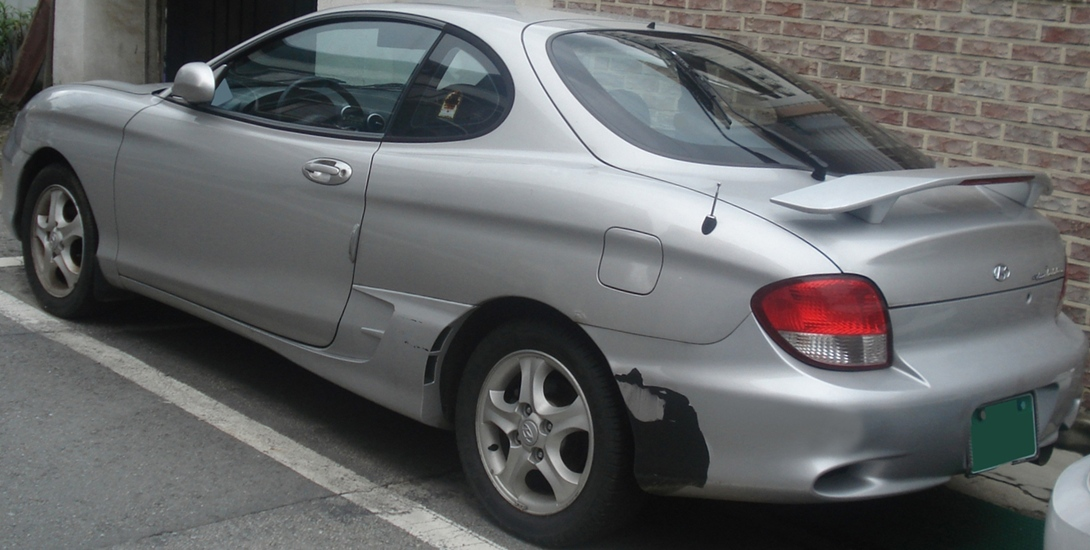 Hyundai Tiburon Turbulence